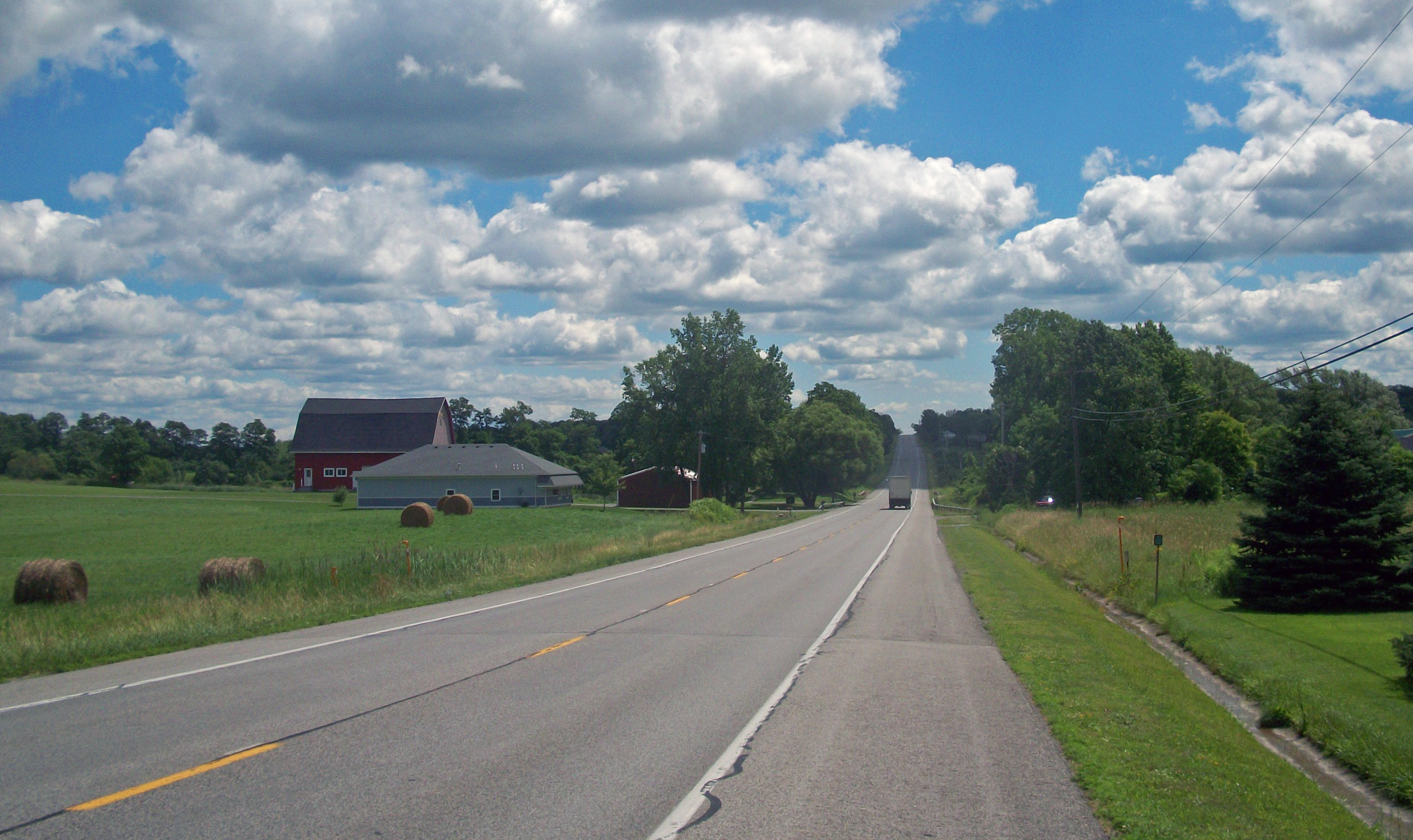 Looking east along US 20 a few miles east of Alexander, NY